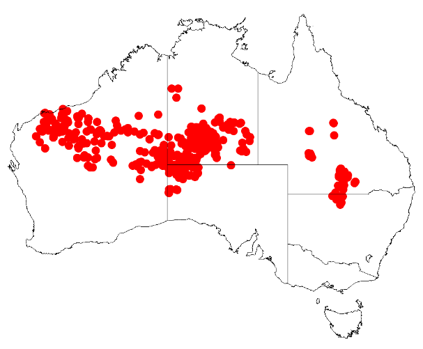 Acacia maitlandii Occurrence data from Australasia Virtual Herbarium downloaded from on 8 December 2018